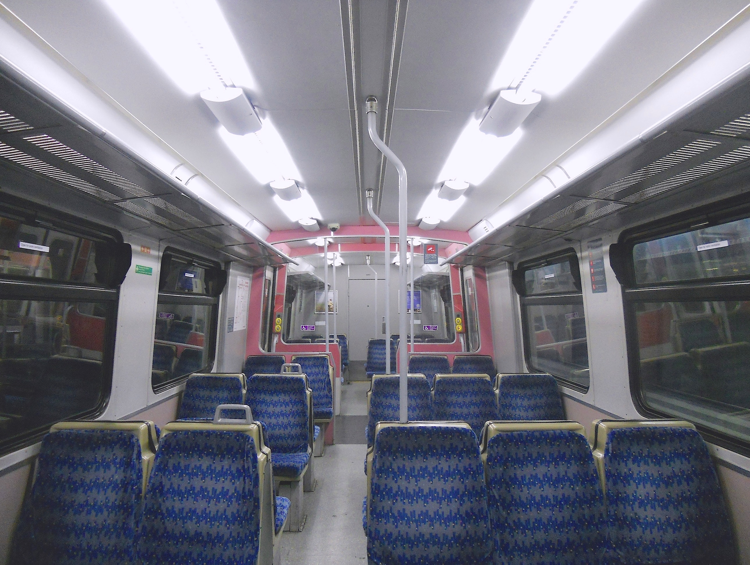 The interior of a one Railway refurbished DMSO vehicle from a Class 315